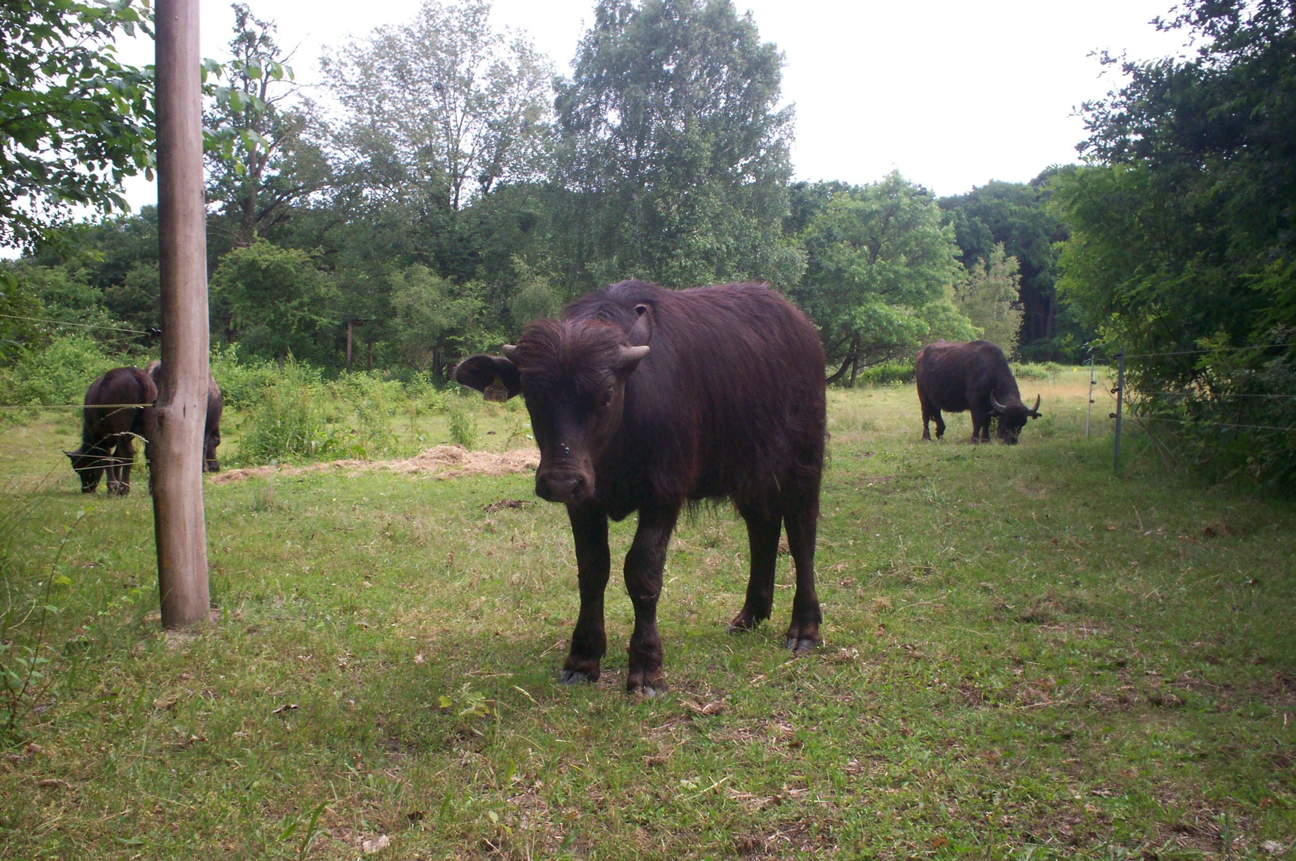 Peacock Island: Water buffaloes near Hechtlaichwiese meadow